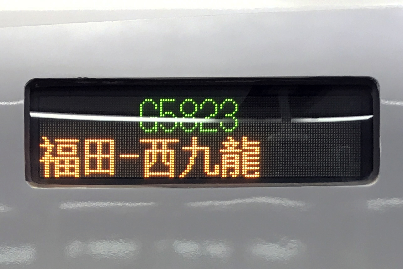 Infoboard of G5823 train